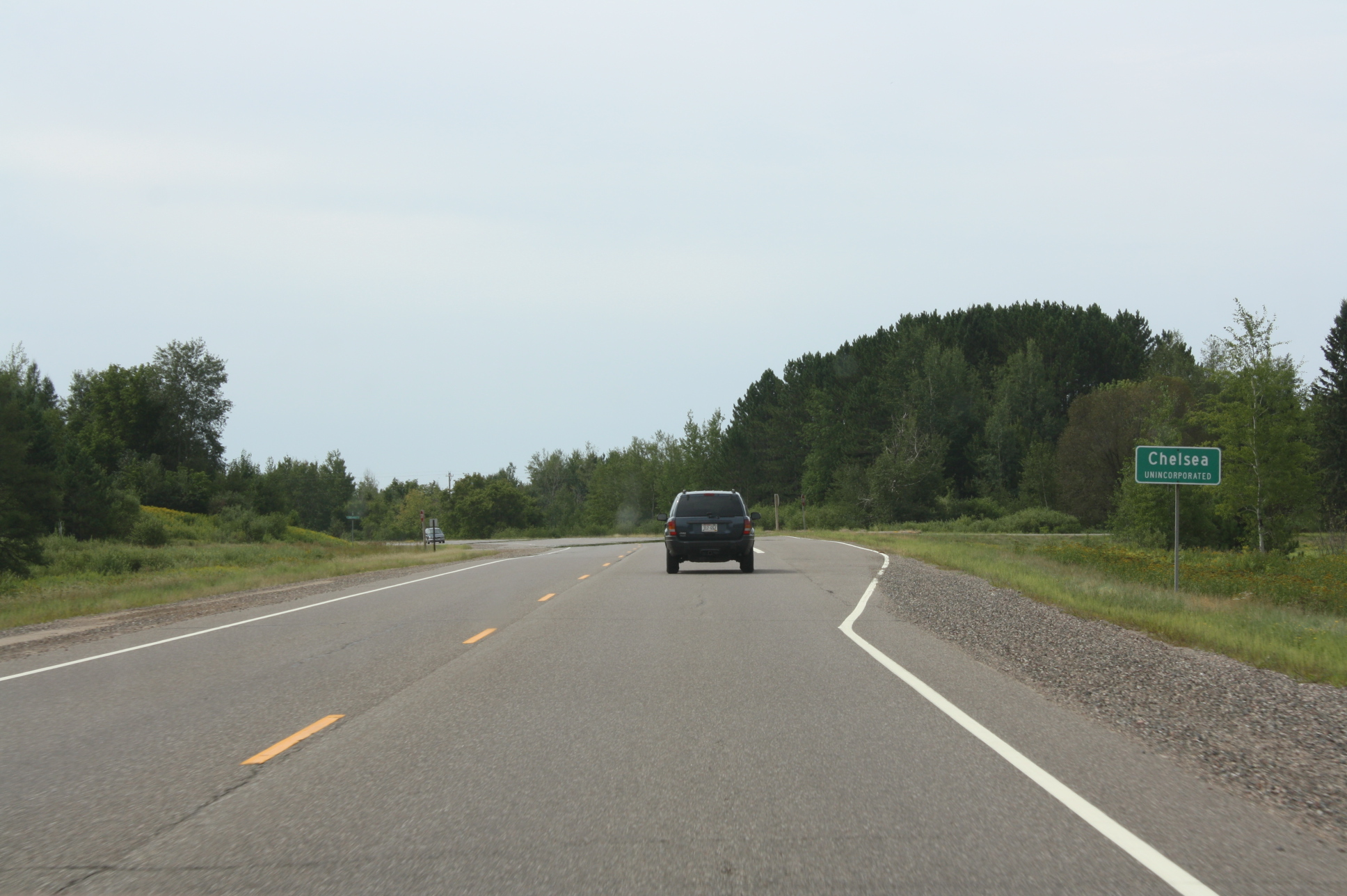 Looking at the sign for Chelsea (CDP), Wisconsin on Wisconsin Highway 13.